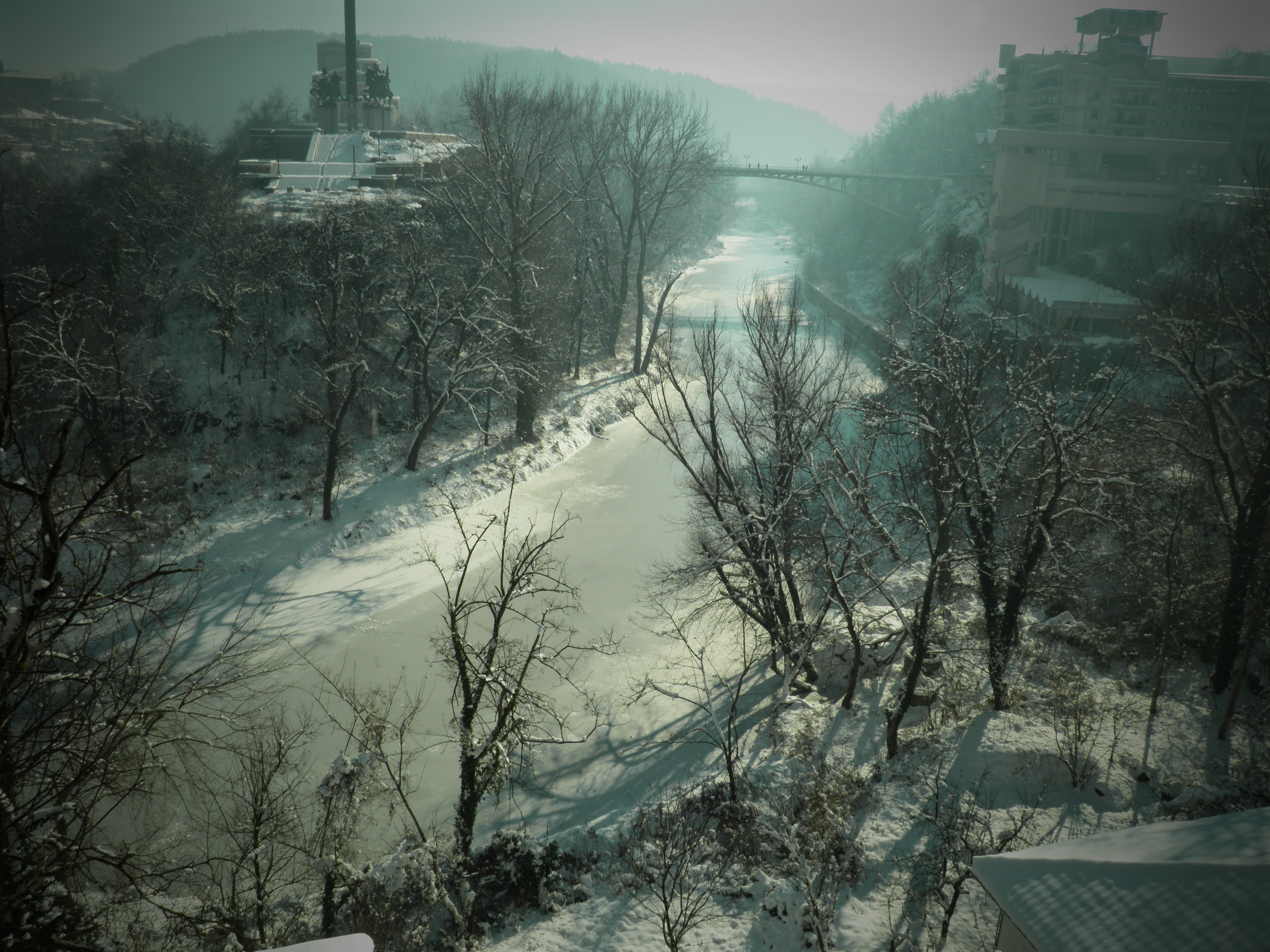 Yantra river,Bulgaria winter